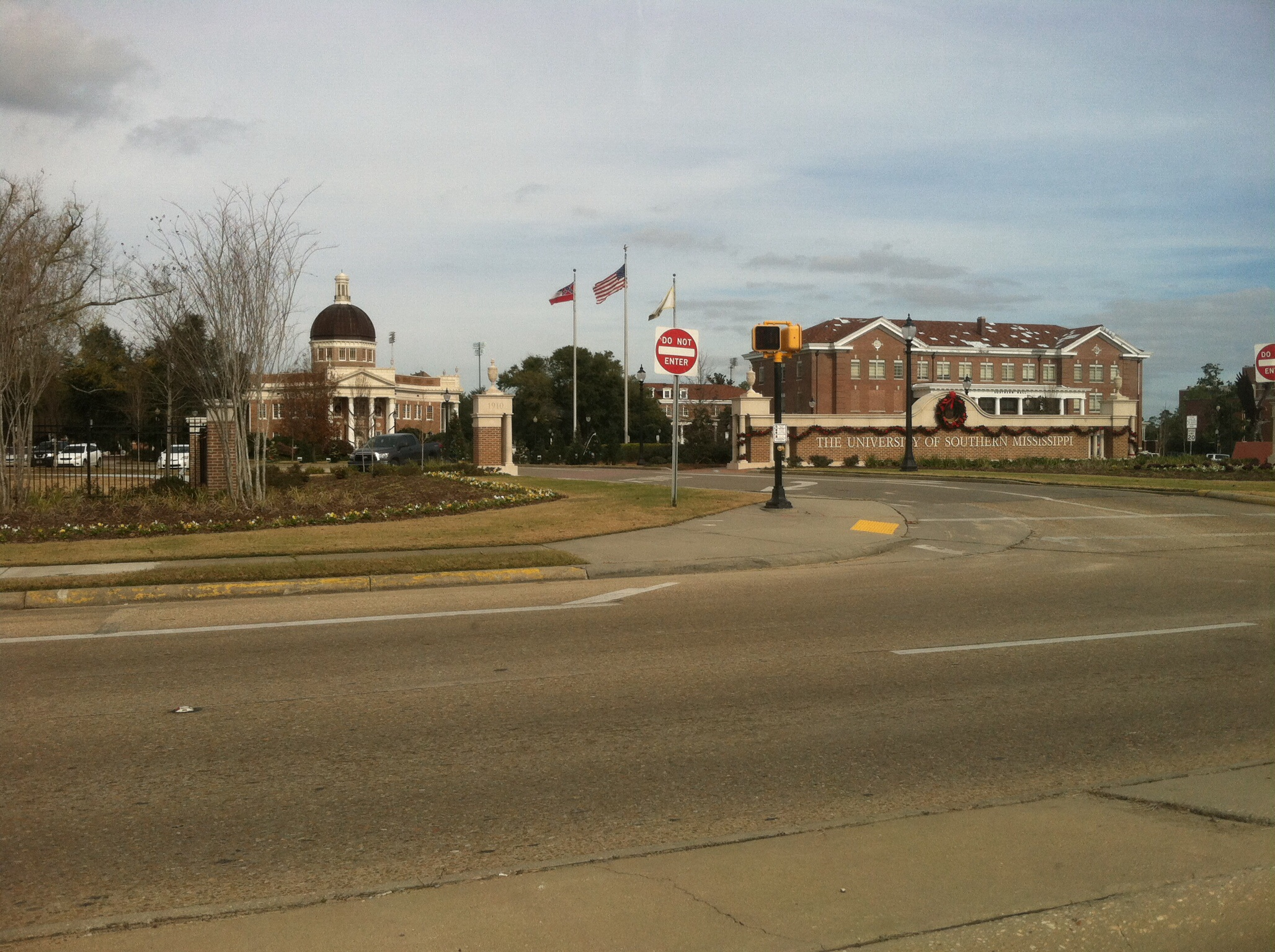 Front of USM from Hardy Street.